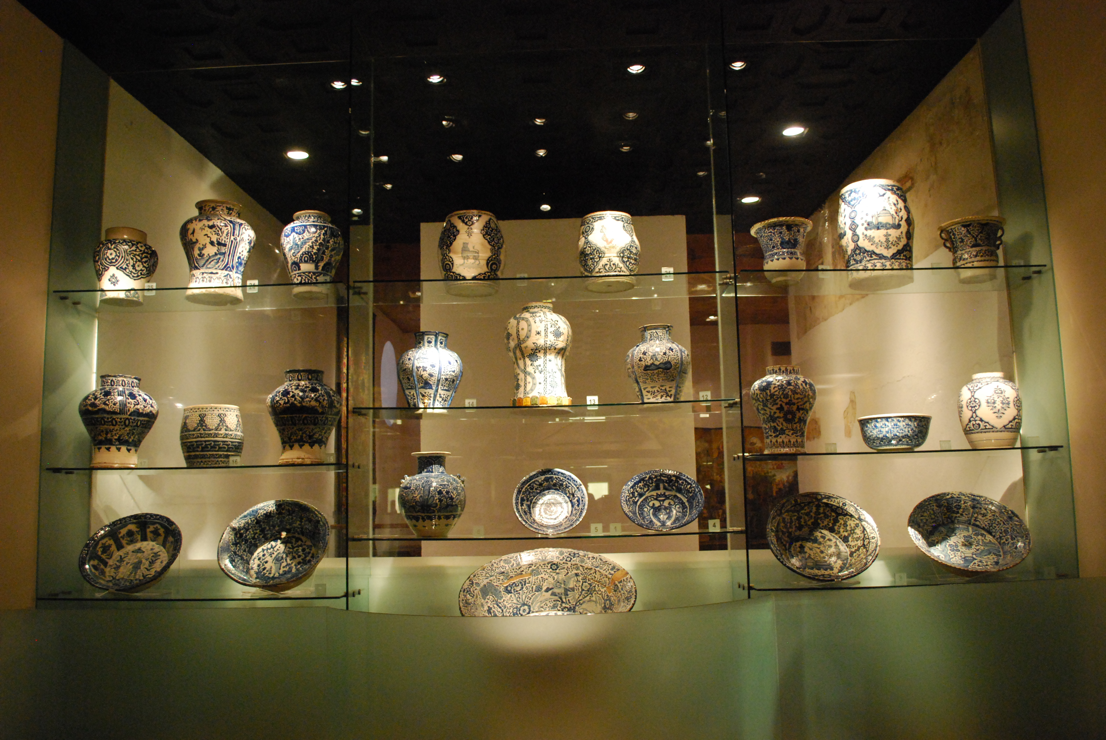 Display of Talavera pottery at the Franz Mayer Museum, Mexico City